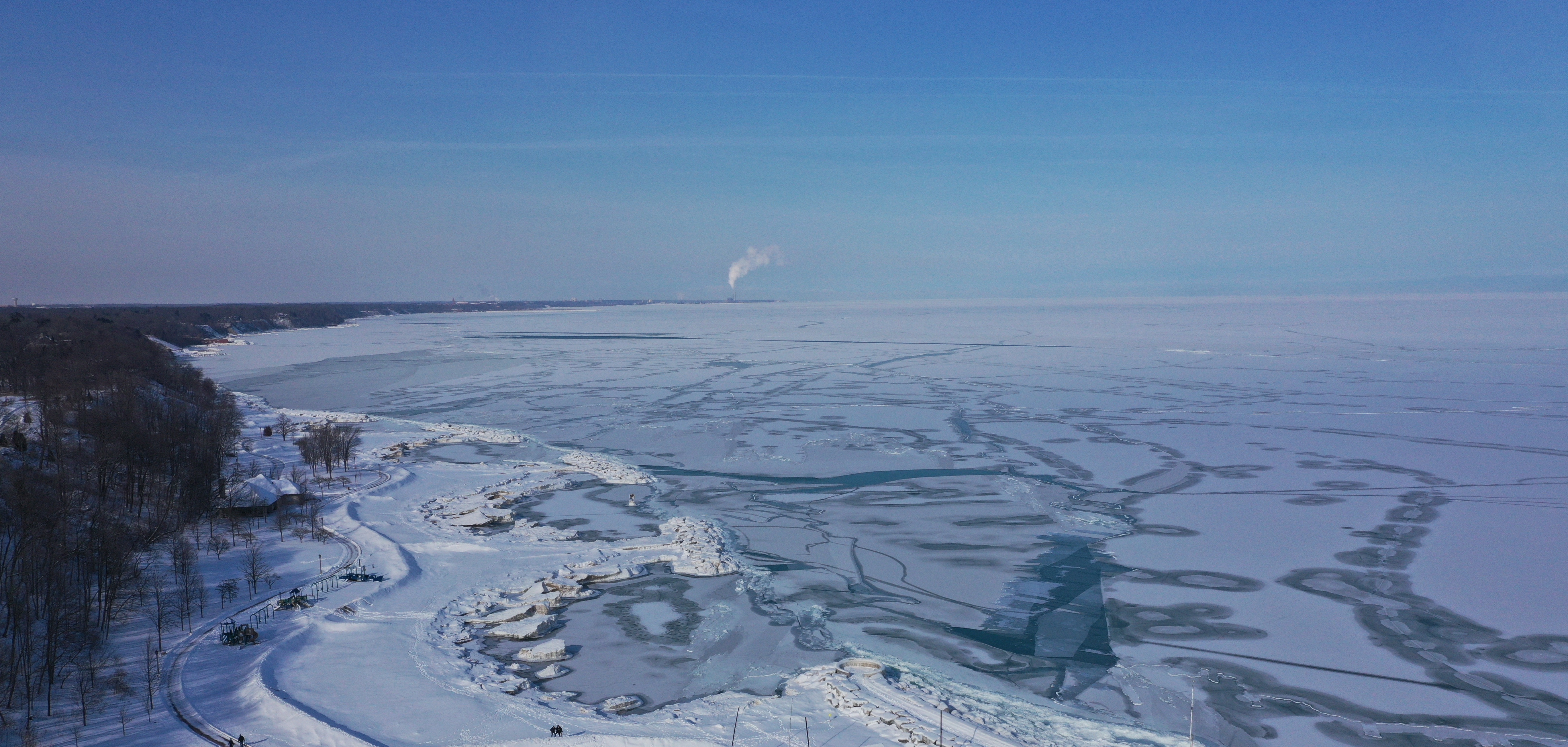 2019 Late January Lake Michigan Freezes viewed from the shore of Lake Forrest with the Forrest Park in the foreground. The temperature had plunged to negatives Fahrenheit for nearly 48 hours.